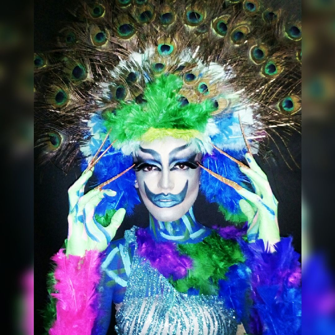 Vanylla D'Bayron como Pavão